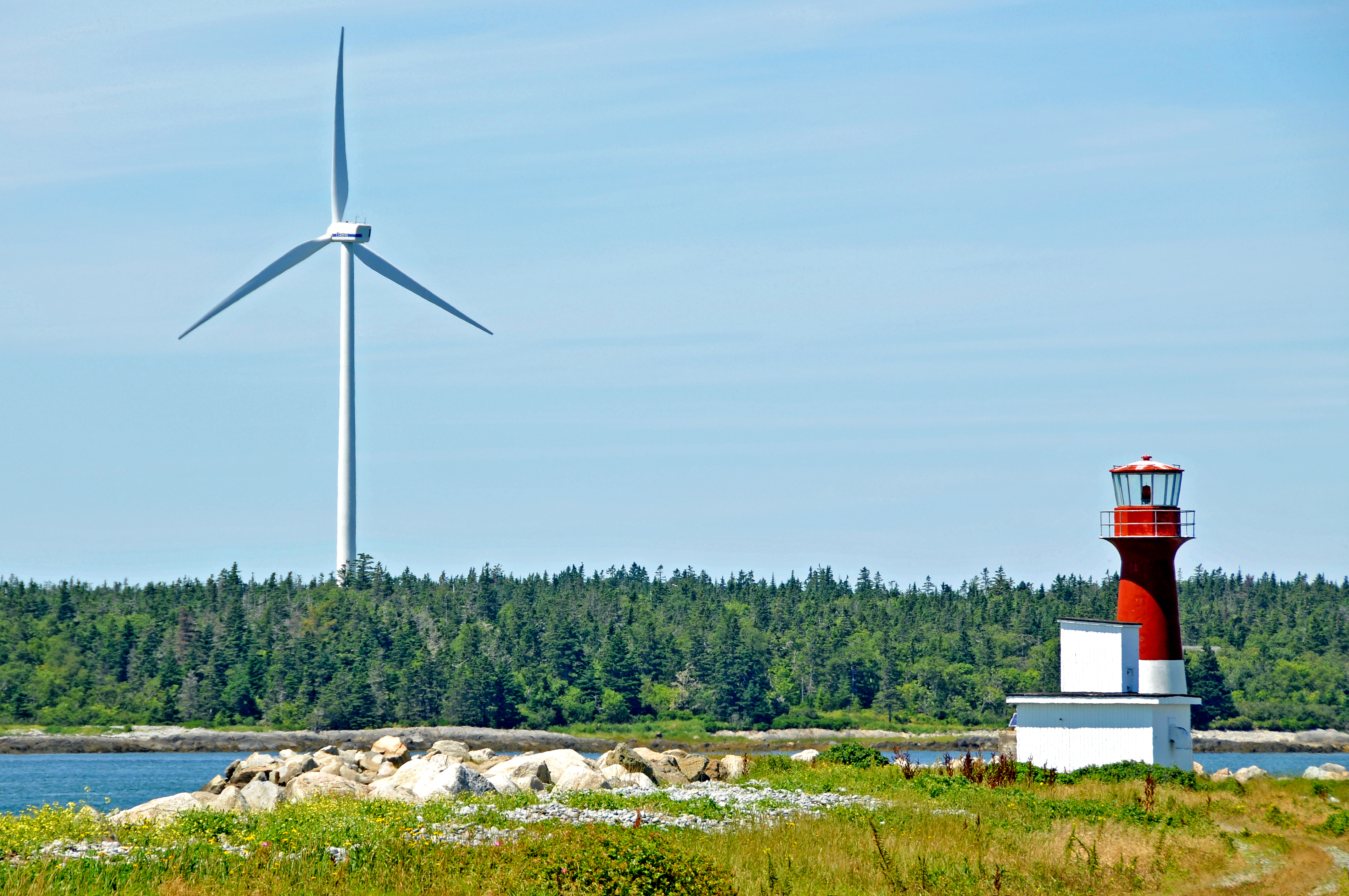 PLEASE, no multi invitations, glitters or self promotion in your comments. My photos are FREE for anyone to use, just give me credit and it would be nice if you let me know, thanks - NONE OF MY PICTURES ARE HDR. A 17 turbine wind farm on the southern portion of Pubnico Point, West Pubnico, Yarmouth County, Nova Scotia generates approximately 100,000,000 kW/hr of electricity annually, enough to power 10,000-13,000 average Canadian homes per year. The power will be sold to Nova Scotia Power Inc. (NSPI). Pubnico Harbour Lighthouse Body of Water: Pubnico Harbour County: Yarmouth Region: Yarmouth & Acadian Shore Scenic Drive: Lighthouse Route Location: End of Beach Point, east entrance to harbour Standing: This light is still standing. Operating: This light is operational Automated: All operating lights in Nova Scotia are automated. Date Automated: Automated by 1987 Began: 1984 Year Lit: 1984 Structure Type: Circular fibreglass tower, white, red band Light Characteristic: Occulting White (1992) Tower Height: 029ft feet high. Light Height: 040ft feet above water level.